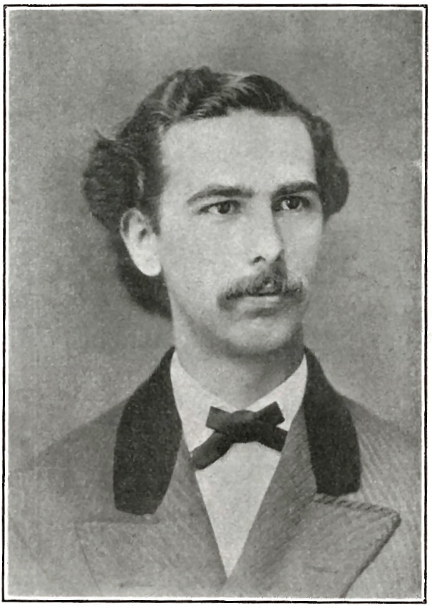 The only photograph in existence of Theodore L. Mead as a young man, taken presumably just before he arrived as a freshman at Cornell University in 1874.